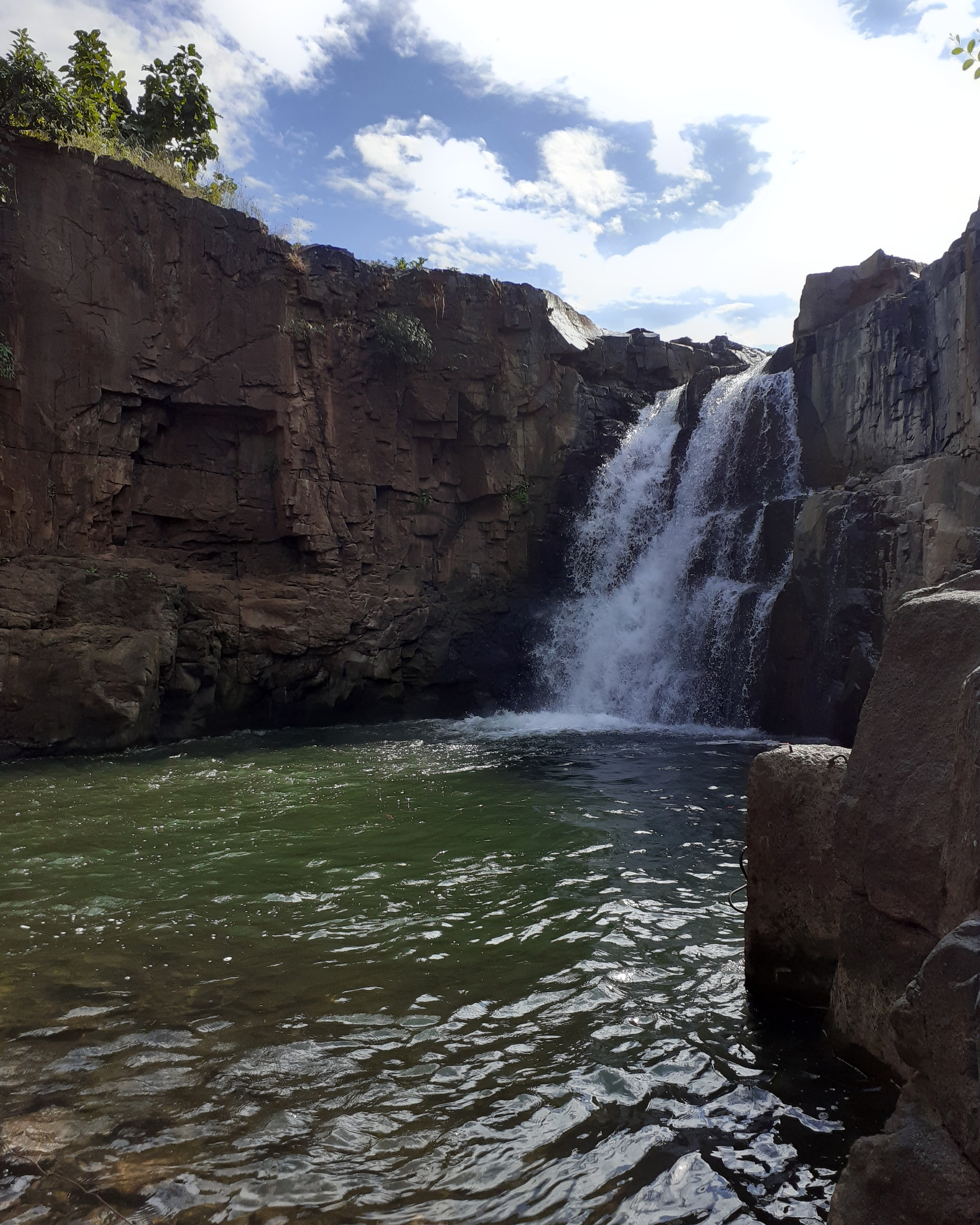 Zarwani Waterfalls, Gujarat